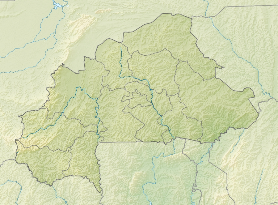 Location map of Burkina Faso Equirectangular projection. Strechted by 102%. Geographic limits of the map: * N: 15.5° N * S: 9° N * W: 6° W * E: 3° E Made with Natural Earth. Free vector and raster map data @ .